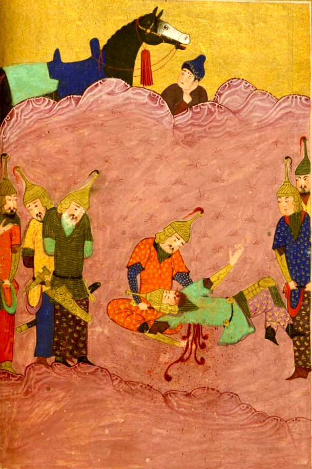 Muhammad Musá al-Mudhahhib - Alexander the Great Laments the Death of Darius - Walters W606265BAzərbaycanca: Makedoniyalı İsləndər III Daranın cəsədi başında